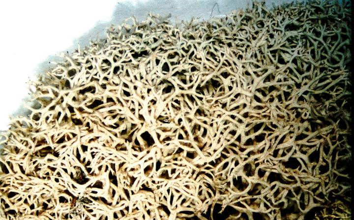 Cladonia evansii Abbayes, 1938 (photograph of a herbarium specimen taken through a dissecting microscope (x6) showing a cluster of branched podetia) Growing in white sand scrub around Juniper Springs Recreation Area, Ocala National Forest, Marion County, Florida, USA; collected and identified by A. Norden and B. Ball (No. 419, 14 Apr 1973); specimen is now in the Lichen Herbarium of the New York Botanical Garden.